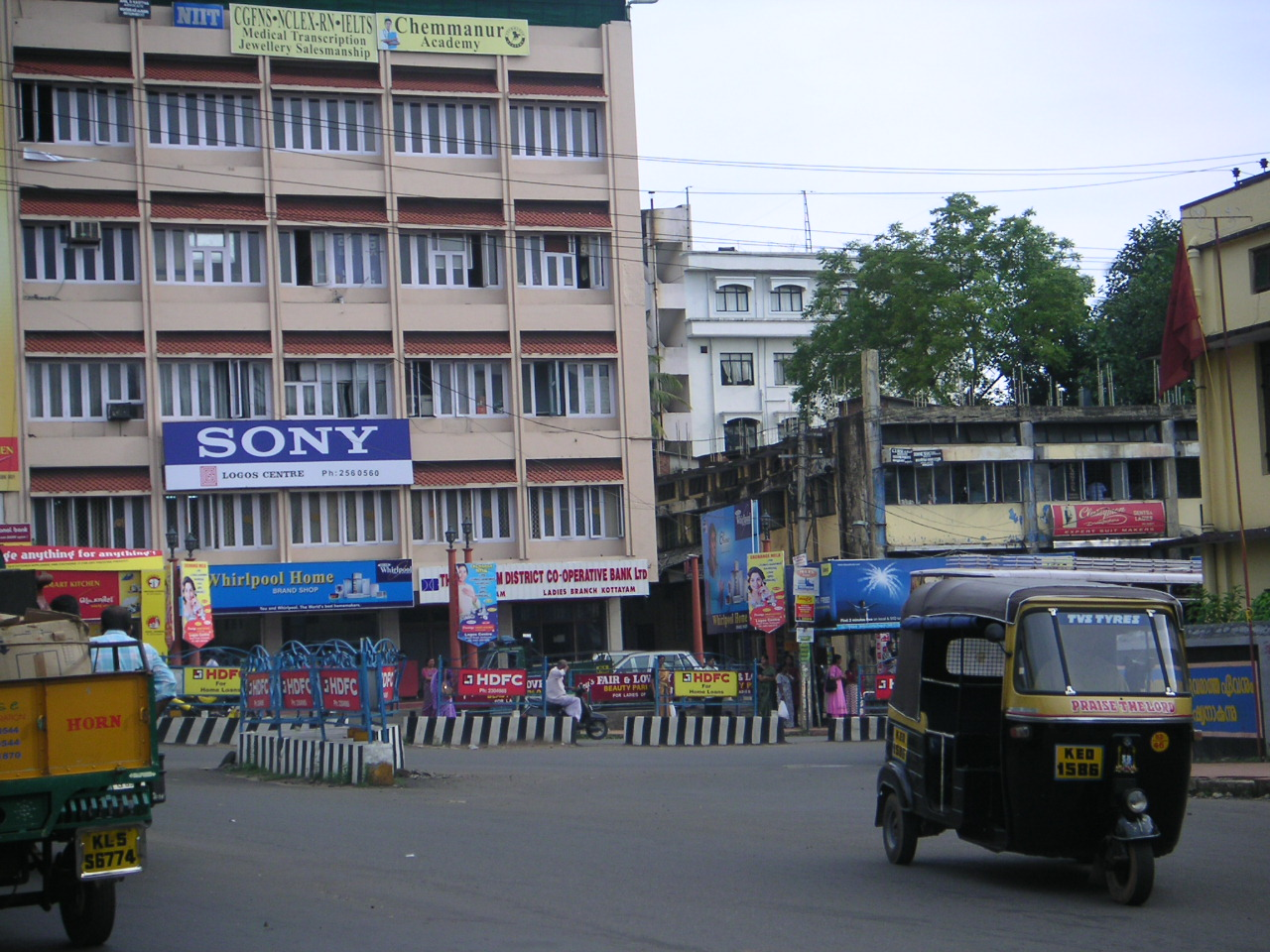 Photo: Soman